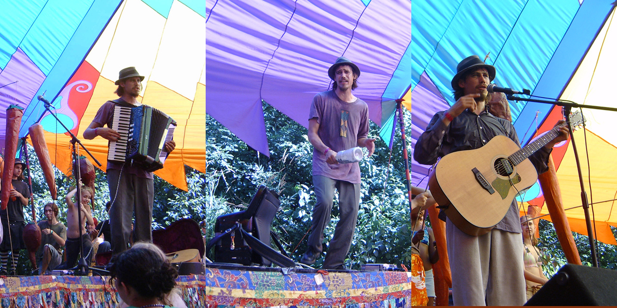 I took these photos of jason Webley at the Oregon Country fair - July of 2006. - RobRoy10280